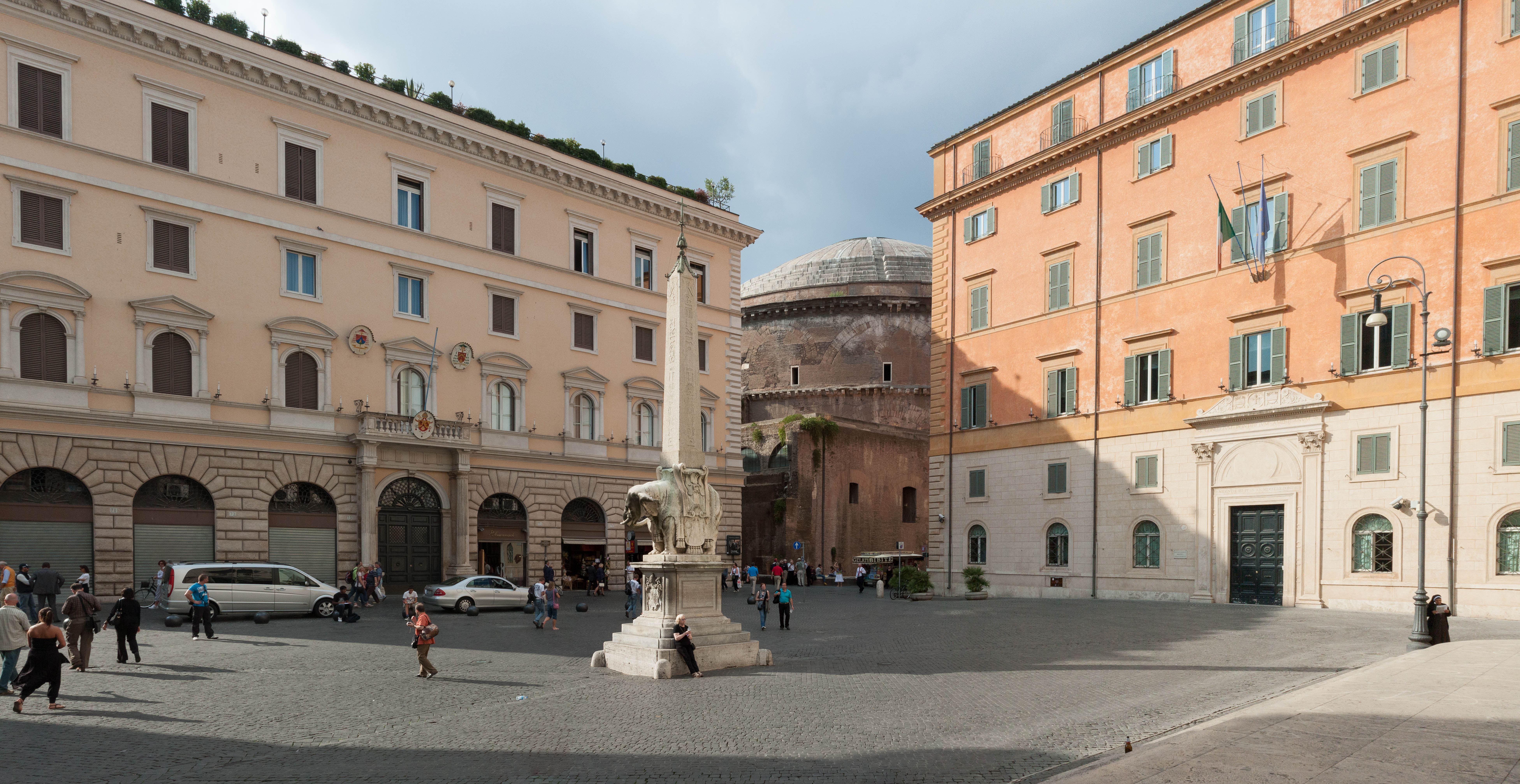 Piazza della Minerva with the Pulcino della Minerva, Accademia Ecclesiasta (left), Pantheon (middle), Biblioteca del Senata della Repubblica (right)